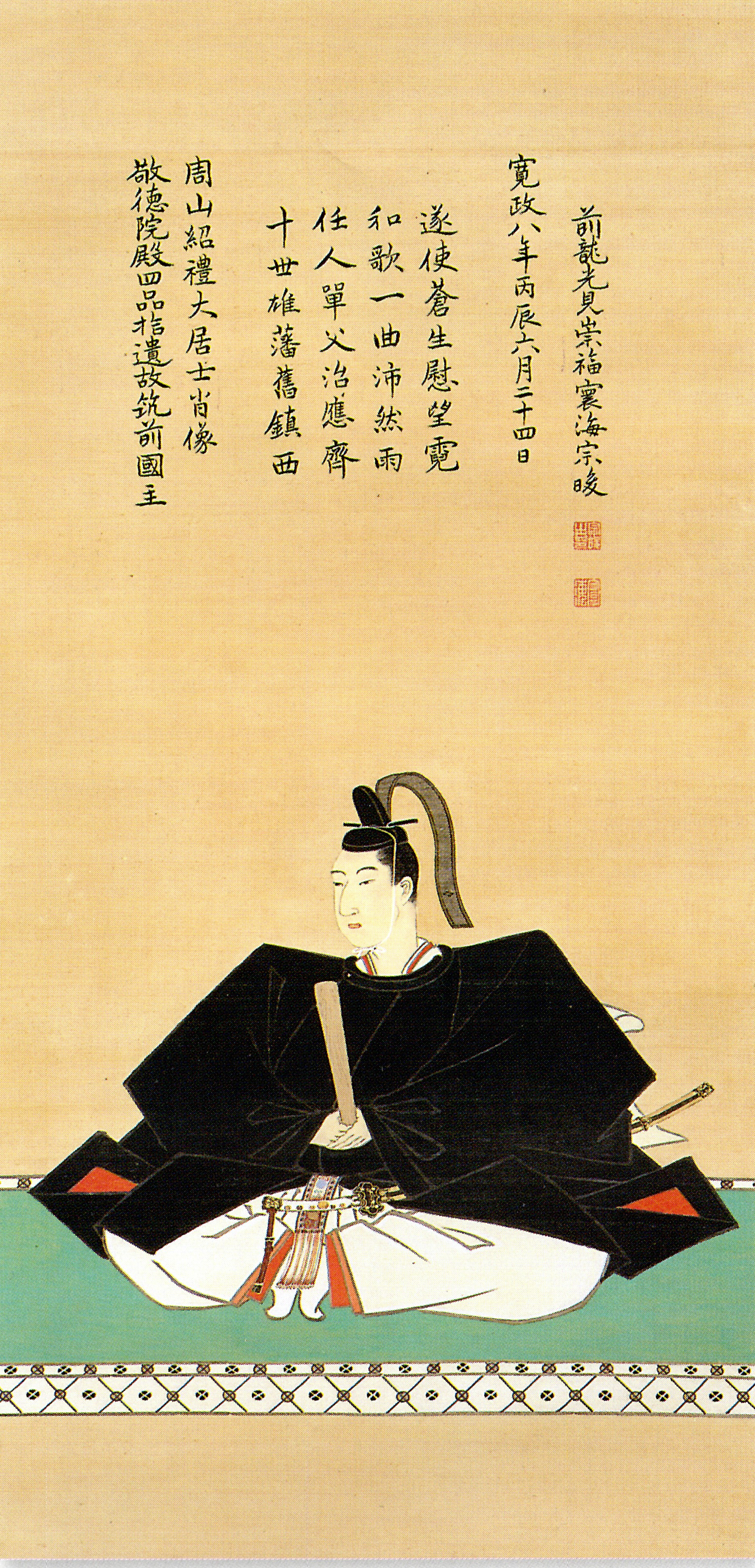 The ninth Load of Fukuoka-han 'Kuroda Naritaka'.